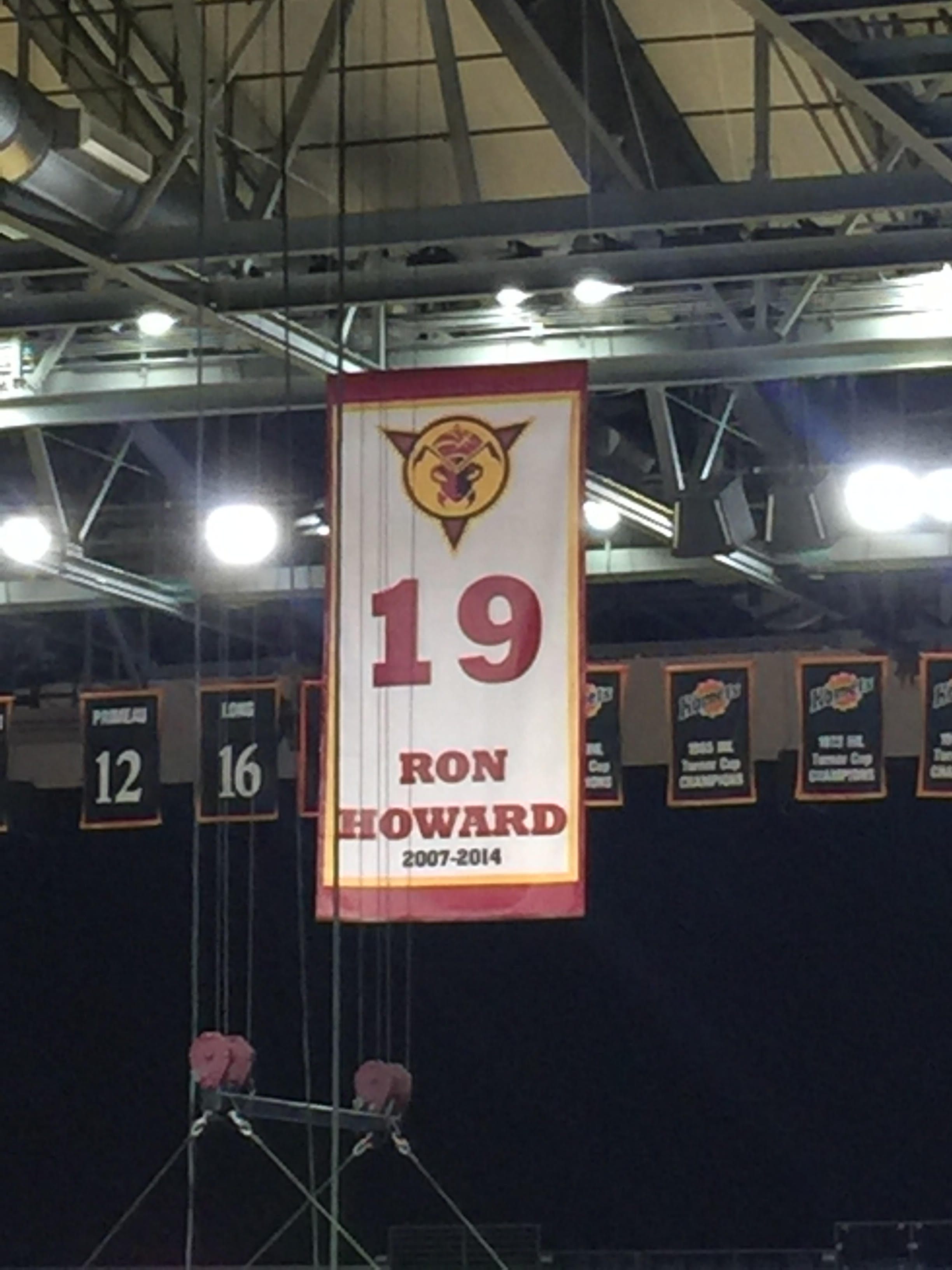 Ron Howard banner commemorating his jersey retirement at the Fort Wayne Memorial Coliseum raised on March 3rd, 2017.